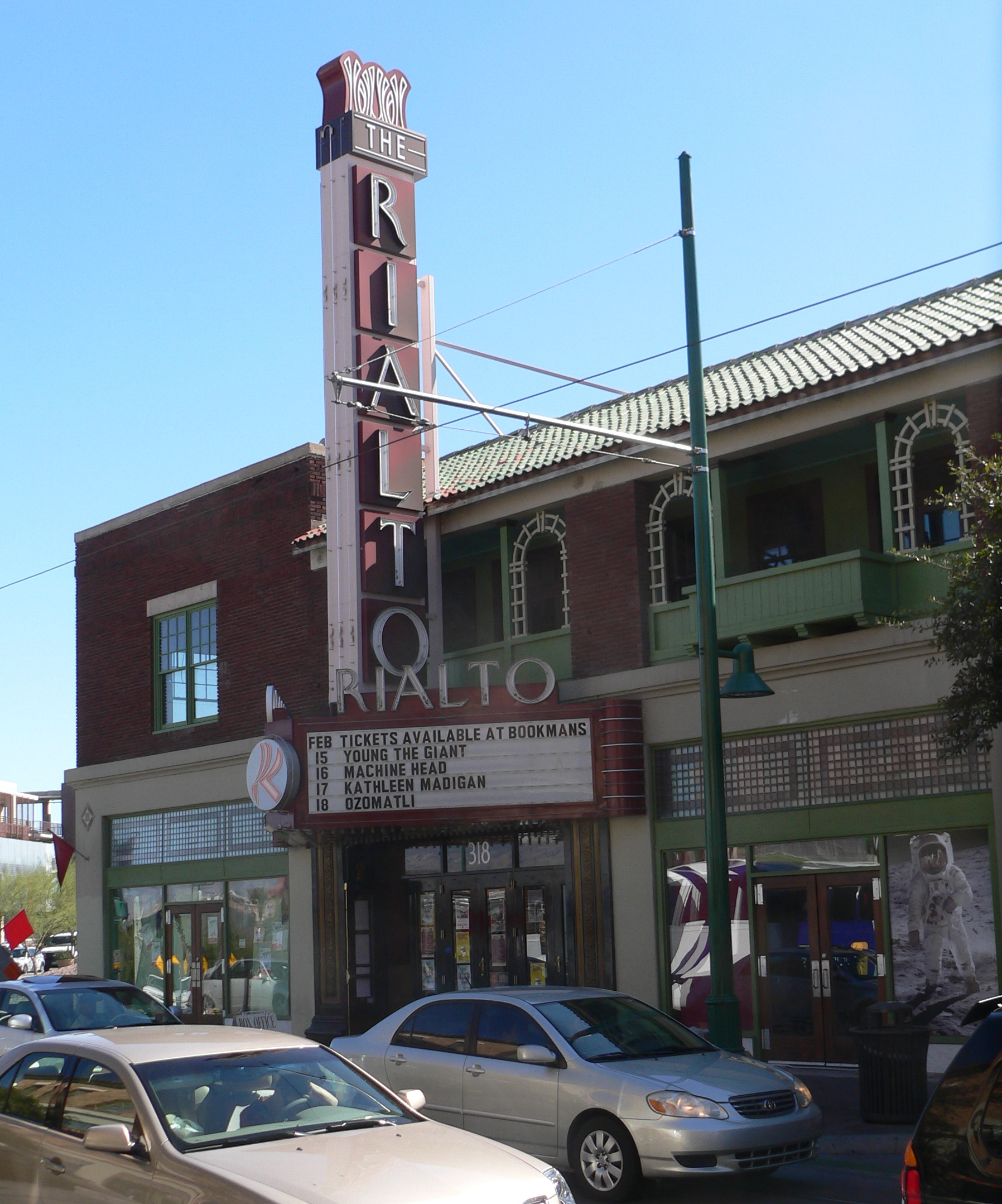 Rialto Theatre, located at 318 E. Congress Street in Tucson, Arizona. View is from the northwest.